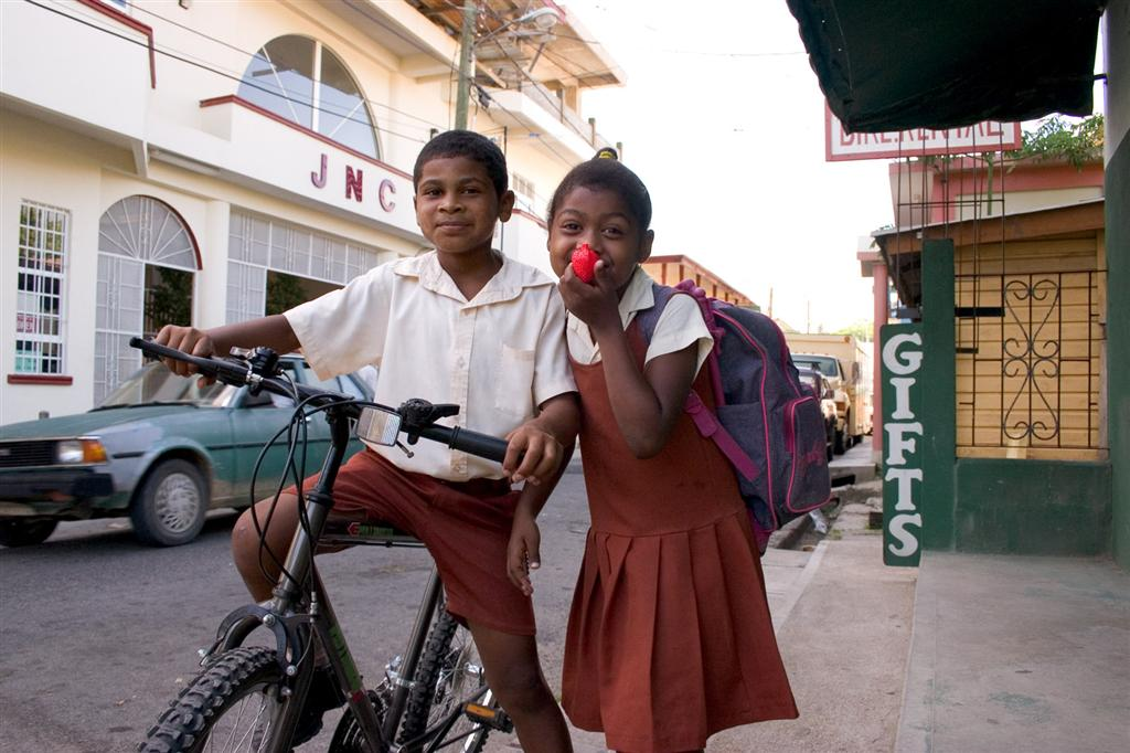 San Ignacio School Children